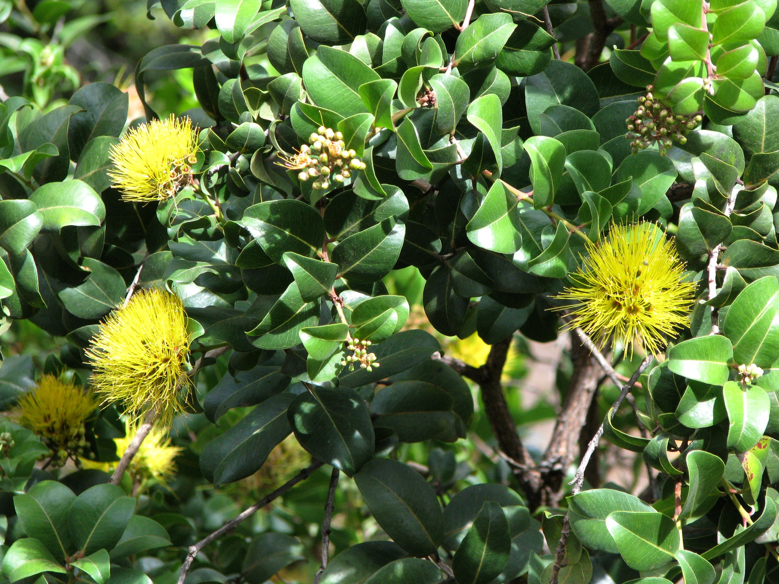 ʻŌhiʻa, ʻŌhiʻa lehua, Lehua, Lehua mamo Myrtaceae Endemic to the Hawaiian Islands Oʻahu (Cultivated) NPH00059